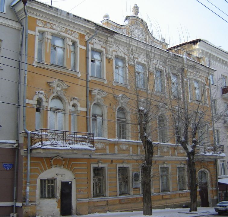 "Korolevskie Nomera" - building of hotel in Perm city, Russia, where Grand Duke Mikhail Alexandrovich was living in 1918 before he was murdered by bolshevists